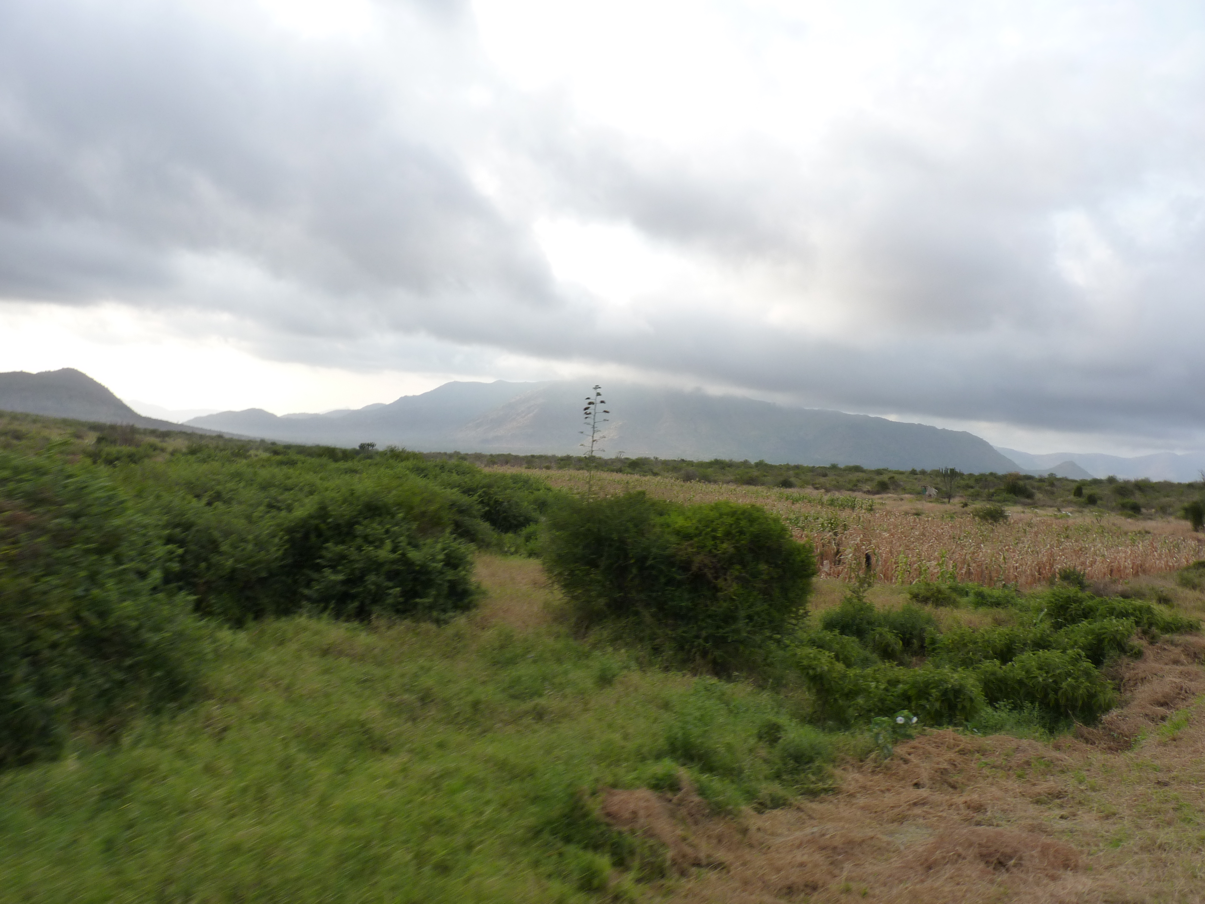 View of South Pare Mountains